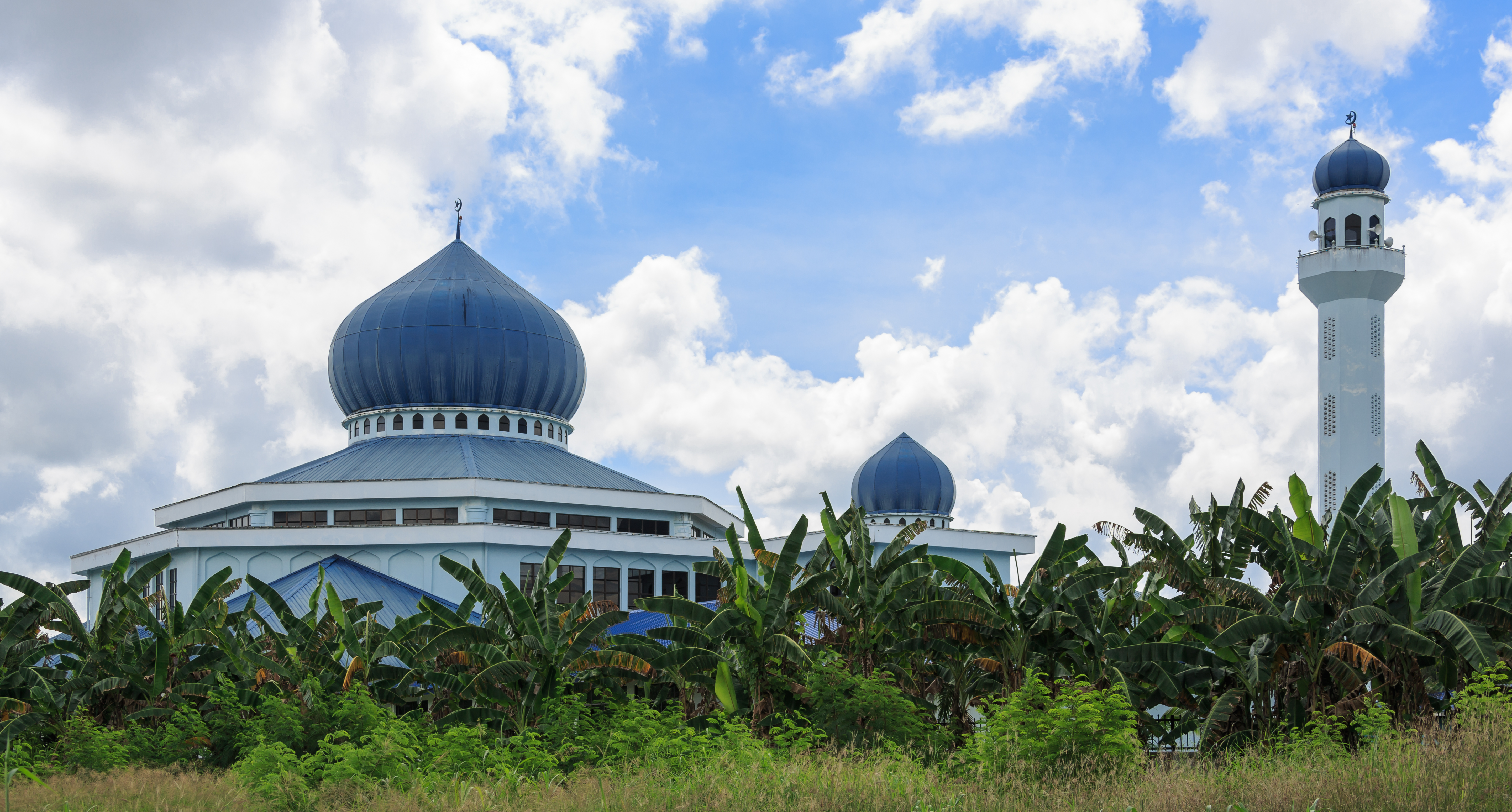 Lahad Datu, Sabah: Minaret of Masjid Ar-Raudah